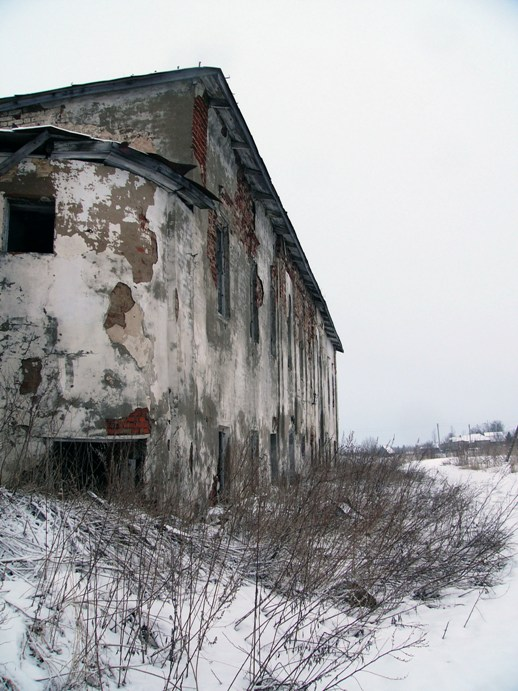 Kornilievo-Komelsky Monastery (Корнилиево-Комельский монастырь) near Gryzovets, Vologodskaya Oblast